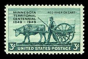 Public domain 1949 United States postage stamp commemorating the Minnesota Territorial Centennial